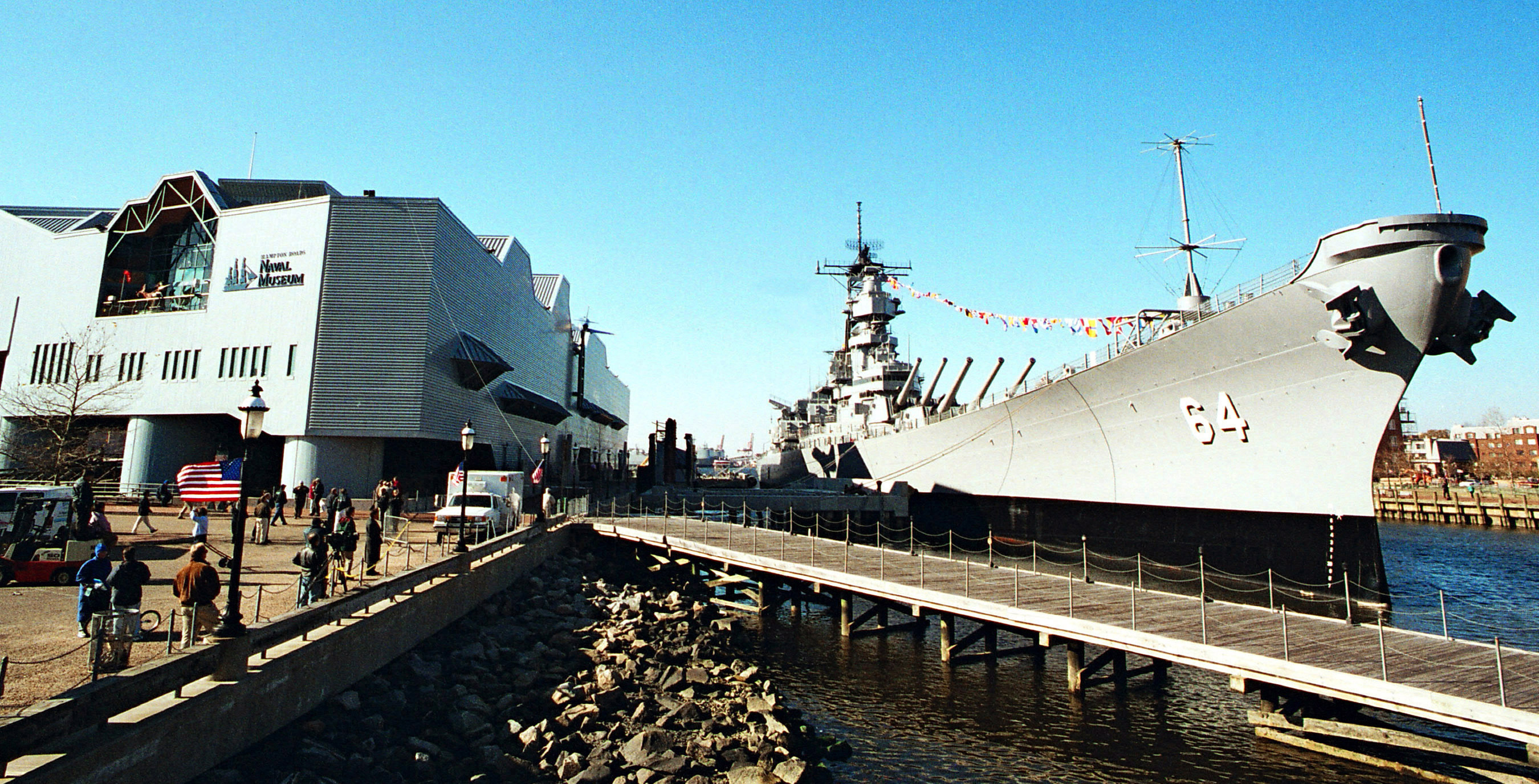 Norfolk, VA. (Dec. 7, 2000) -- The battleship USS Wisconsin (BB 64) sits permanently moored at her final homeport, as a centerpiece exhibit at Norfolk’s Nauticus Naval Heritage Museum. U.S. Navy photo by Gunner's Mate 1st Class Thomas J. Lowney. (RELEASED)